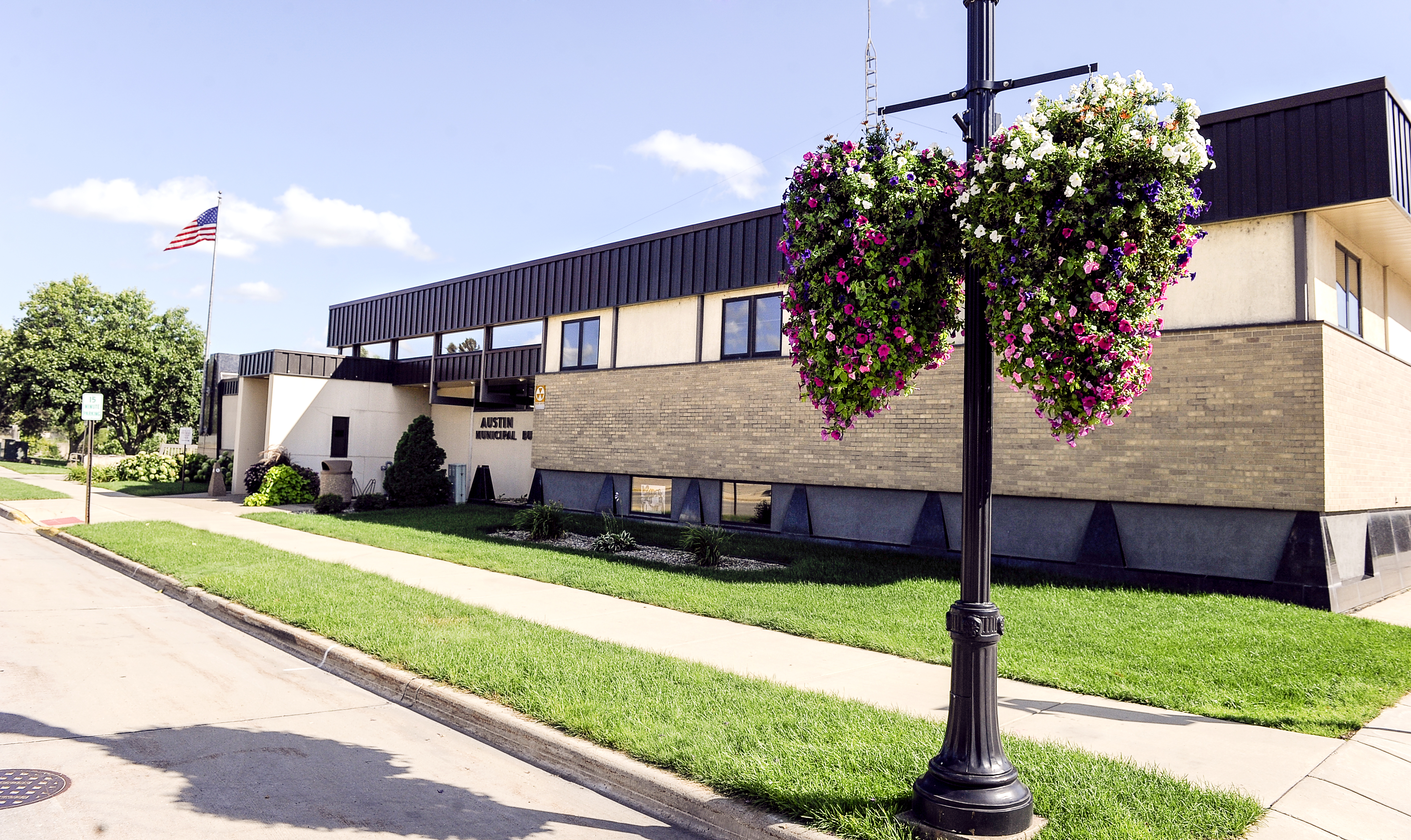 City Hall Austin Minnesota 500 4th Avenue NE Austin, Minnesota 55912